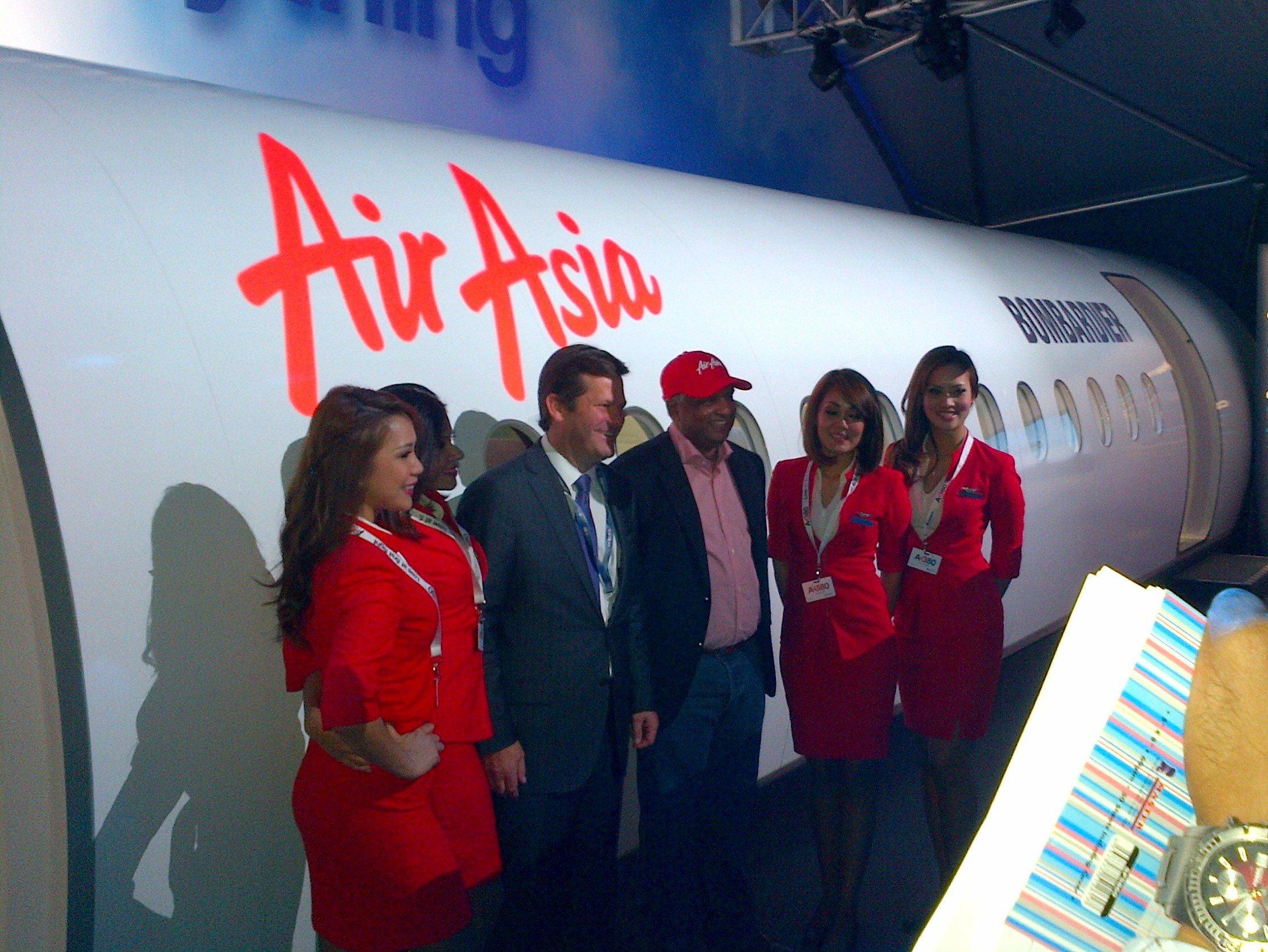 Bombardier is pulling out all the stops to sell an ultra-high-density version of its CS300 to AirAsia.